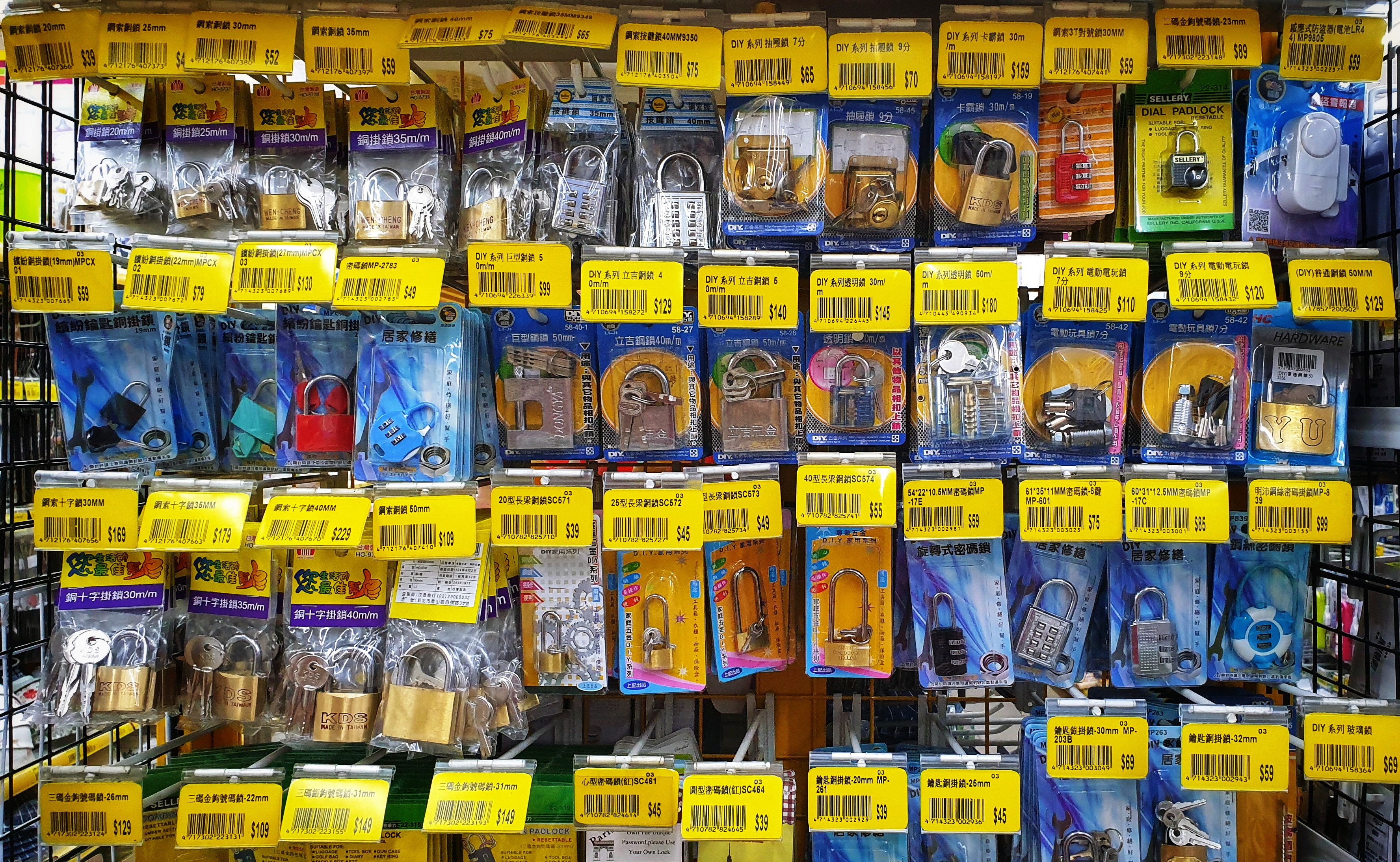 Padlocks with keys in a hardware store in Taiwan.